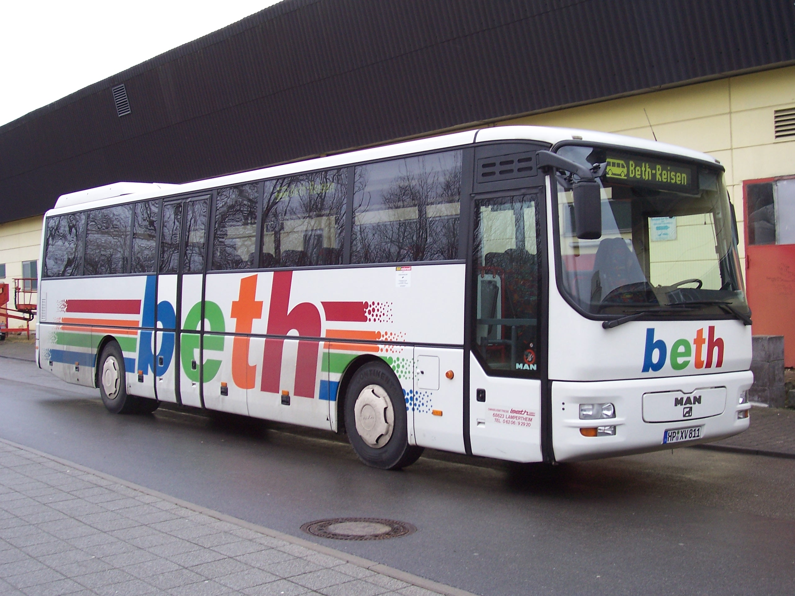 A MAN Touring bus in Viernheim, Germany. Reisecenter-Beth GmbH & Co KG company bus from Lampertheim. My own photo